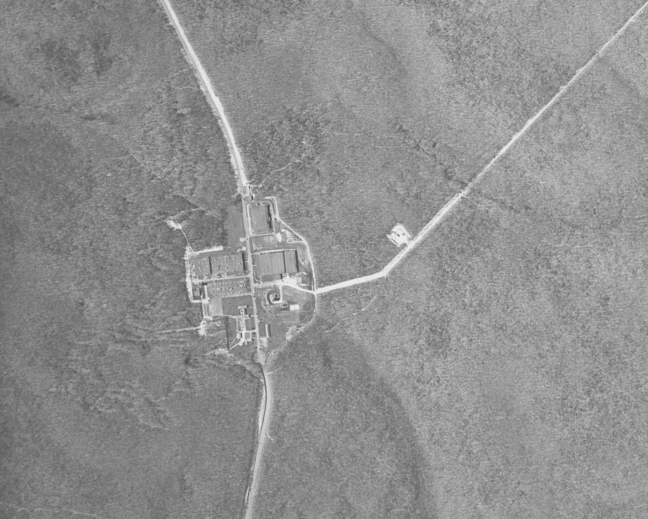 Aerial photo of Quehanna Wild Area and the surrounding Moshannon State Forest in Clearfield County, Pennsylvania in the United States. North is up. The Quehanna Highway is the curving vertical road on the left side. It passes through what was then known as Quehanna and in 2010 known as Piper Boot Camp, originally an industrial facility set up by Curtiss-Wright Corp. The small diagonal road running to the right side leads to the Piper Reservoir on the stream named Upper Three Runs.